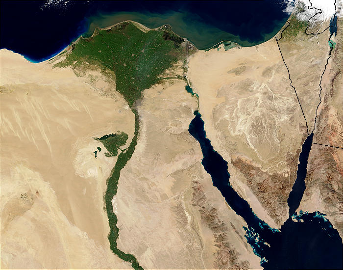 Nile River and delta from orbit Description: The Nile River and delta as seen from space by the MODIS sensor on the Terra satellite. "Against the barren desert of northeastern Africa, the fertile valley of the Nile River runs northward through Egypt. In the higher-resolution images, the city of Cairo can be seen as a gray smudge right where the river widens into its broad fan-shaped delta. Other cities are dotted across the green landscape, giving it a speckled appearance. Where the Nile empties into the Mediterranean Sea (top) the waters are swirling with color, likely a mixture of sediment, organic matter, and possibly marine plant life. Farther west, the bright blue color of the water is likely less-organically rich sediment, perhaps sand. "East of the delta lies the arid Sinai Peninsula, whose pointed tip is home to rugged mountains, some as high as 8,600 feet. The lattice work of pale lines marks the paths of ephemeral rivers. The Sinai Peninsula intrudes into the Red Sea. Farther east are Israel, Jordan, and Saudi Arabia. At top right is the disputed territory of the West Bank. "In the false-color image, vegetation is bright green, water is dark blue or black, and clouds are light blue. It's interesting to notice that places that seem essentially arid, or desert-like in the true-color image in fact have a delicate layer of vegetation. For example, the central Sinai Peninsula, and most of Israel have a faint greenish tinge in the false-color images.